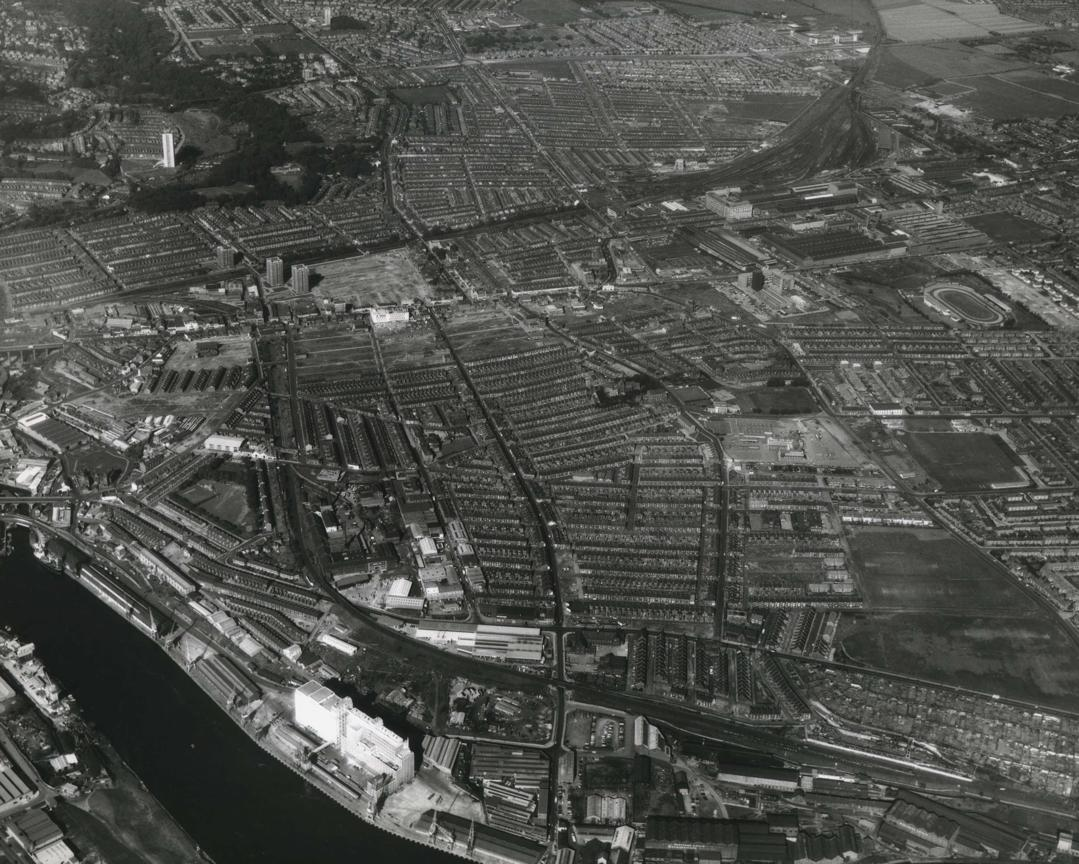 The Ouseburn and Glasshouse Road Bridge can be picked out on the right edge of the image with Brough Park dog stadium on the left. Spillers Flour Mills is the building reflecting the light in the lower middle of the image. Reference: TWAS: DT.TUR.7.37 (Copyright) We're happy for you to share this digital image within the spirit of The Commons. Please cite 'Tyne & Wear Archives & Museums' when reusing. Certain restrictions on high quality reproductions and commercial use of the original physical version apply though; if you're unsure please . To purchase a hi-res copy please quoting the title and reference number